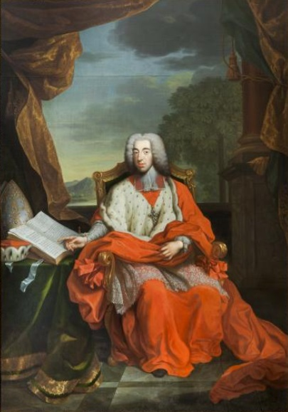 Portrait of Clemens August of Bavaria (1700-1761)